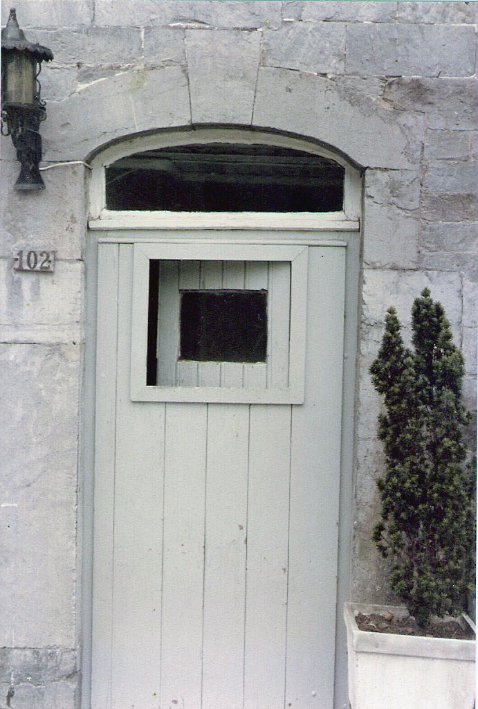 stable door Walon: purnea et sordjoû dins èn ouxh di ståve